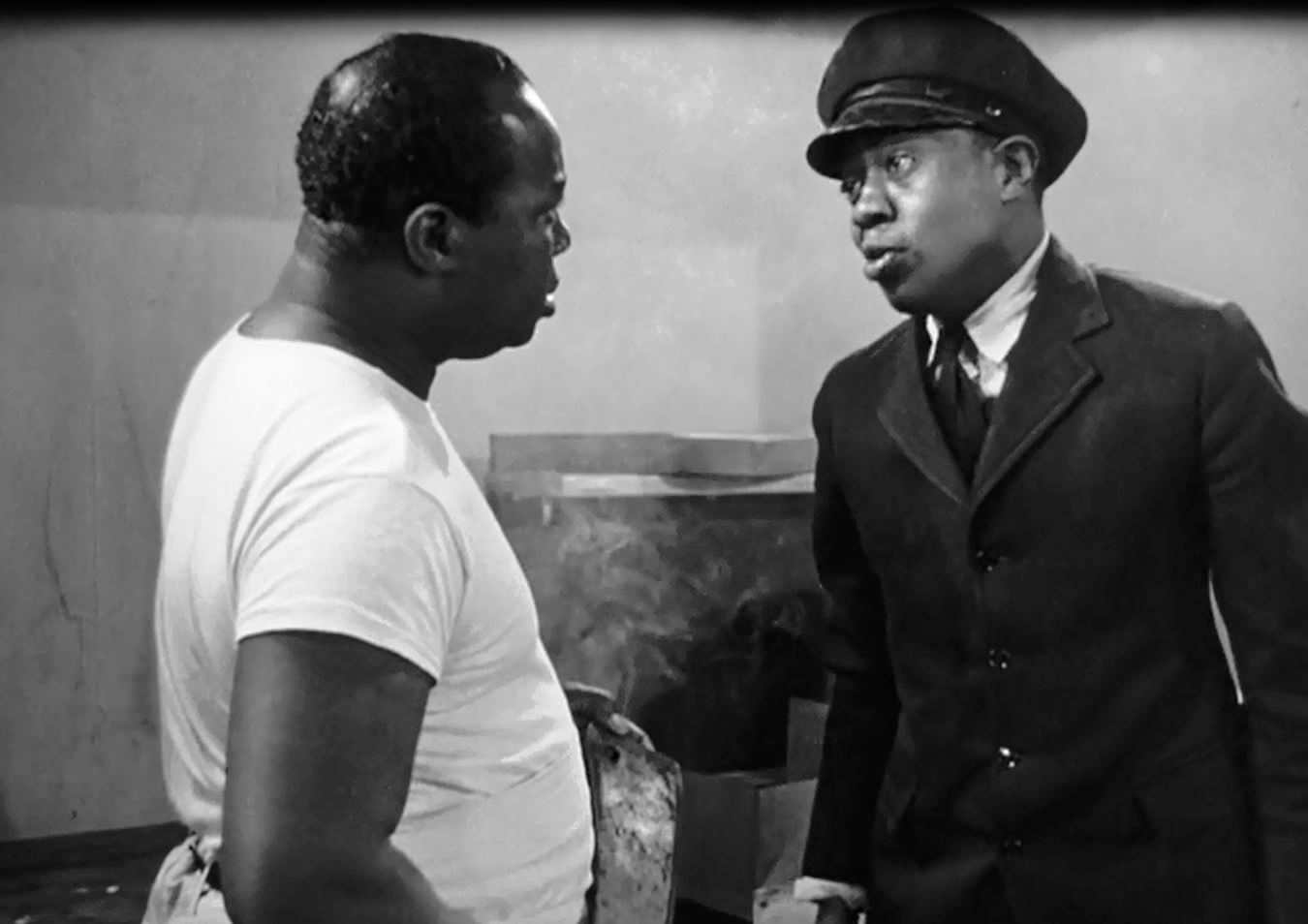 Low resolution screenshot of Dudley Dickerson as Big Ben and Willie Best as Chattanooga Brown from the American film Dangerous Money (1946). The film is in the public domain due to the omission of a valid copyright notice on its original prints.